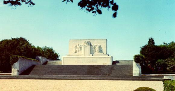 The Bellicourt American Monument is nine miles north of St. Quentin (Aisne), France on the highway to Cambrai and one mile north of the village of Bellicourt. It is 97 miles north of Paris and three miles from the Somme American Cemetery. Erected above a canal tunnel built by Napoleon I, it commemorates the achievements and sacrifices of the 90,000 American troops who served in battle with the British Armies in France during 1917 and 1918.